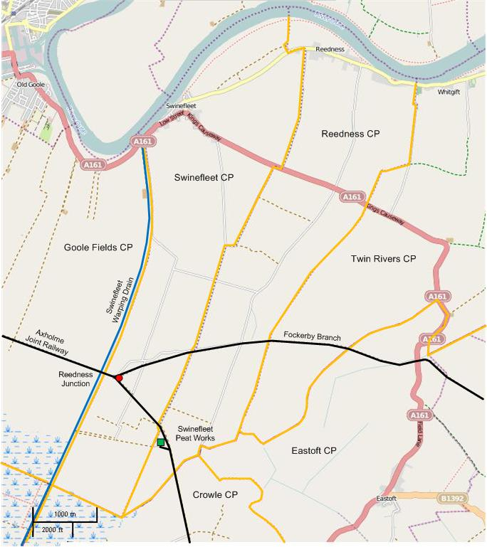 Map of Swinefleet and Reedness civil parishes, with overlays showing parish boundaries, Swinefleet Warping Drain and Axholme Joint Railway